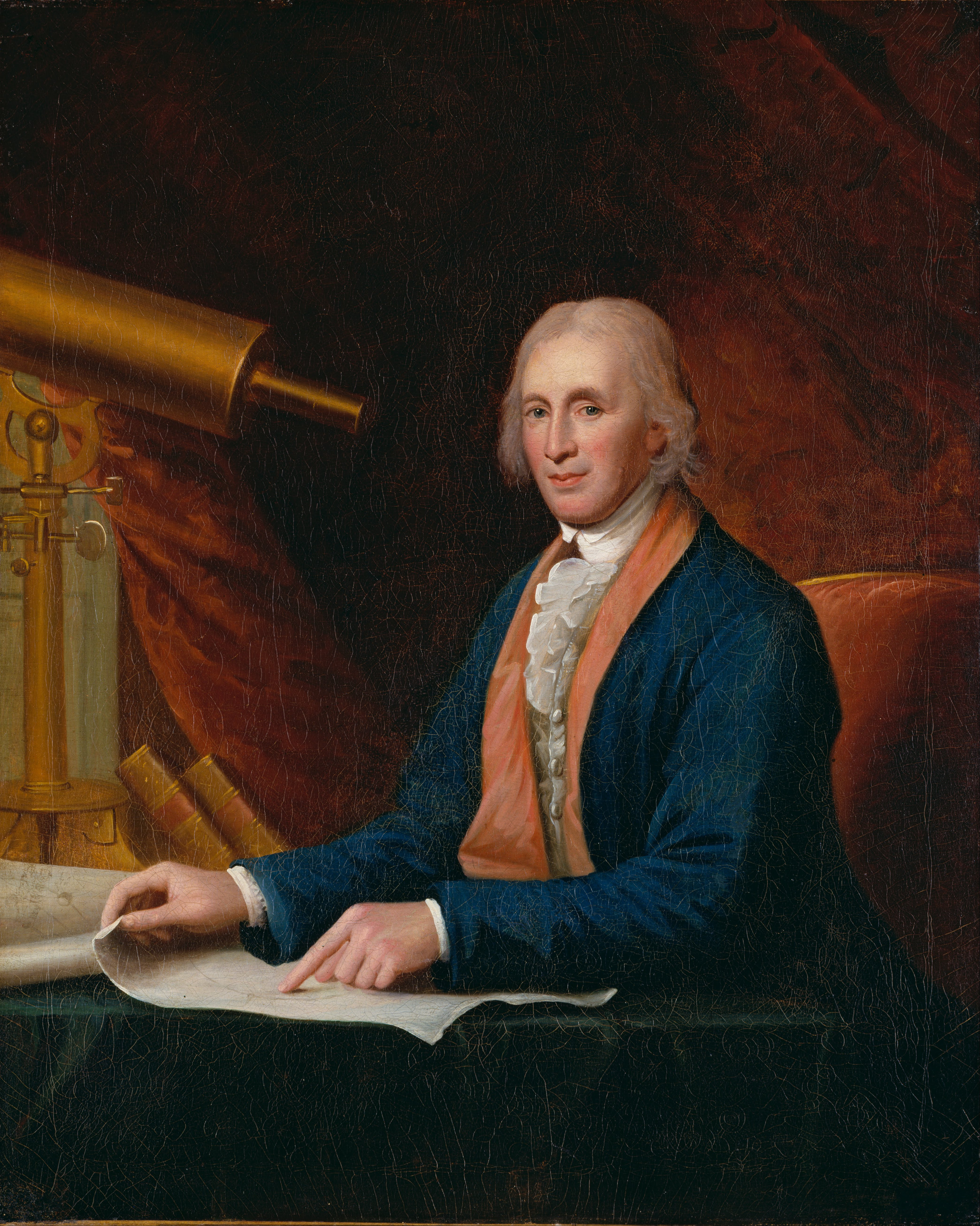 David Rittenhouse was a renowned American astronomer, inventor, mathematician, surveyor, scientific instrument craftsman, and public official.